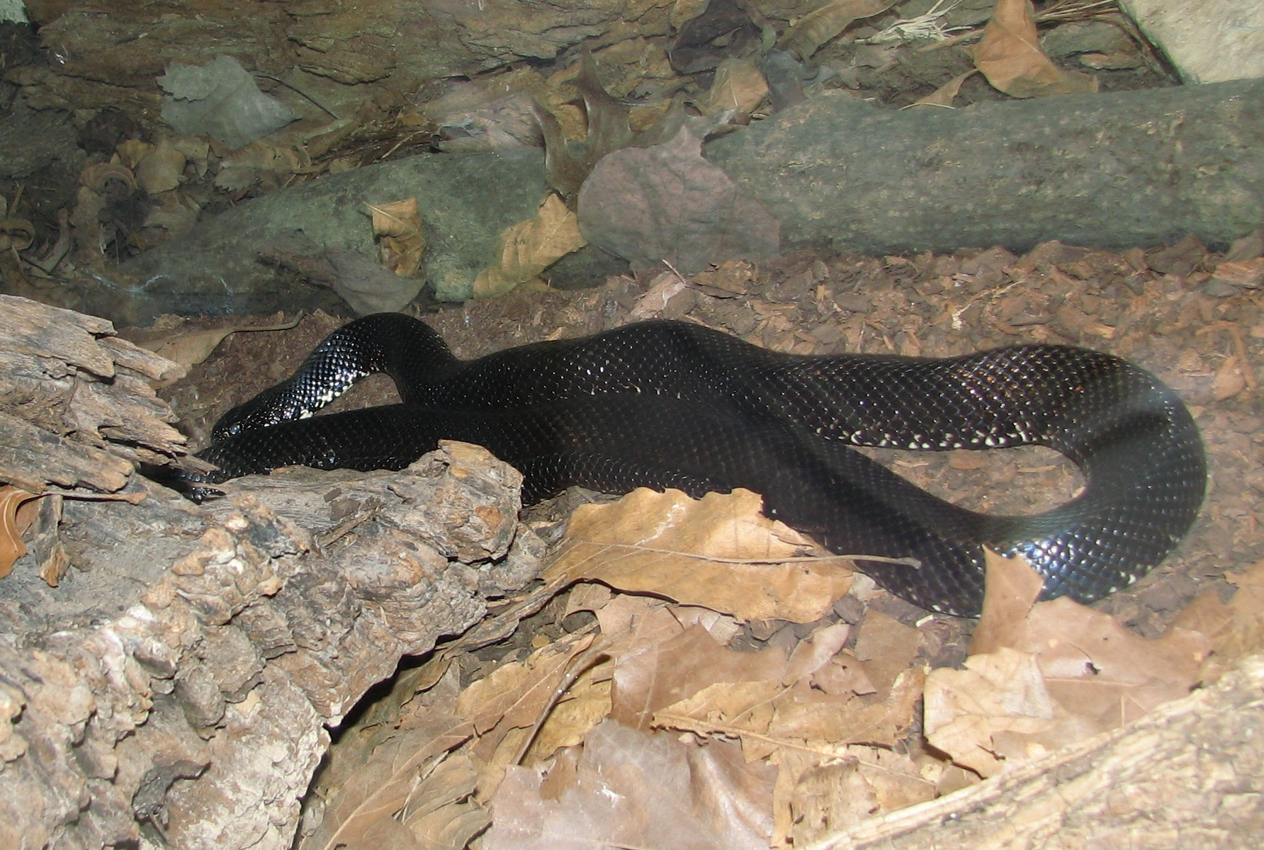 Black Kingsnake ( Lampropeltis getula niger )